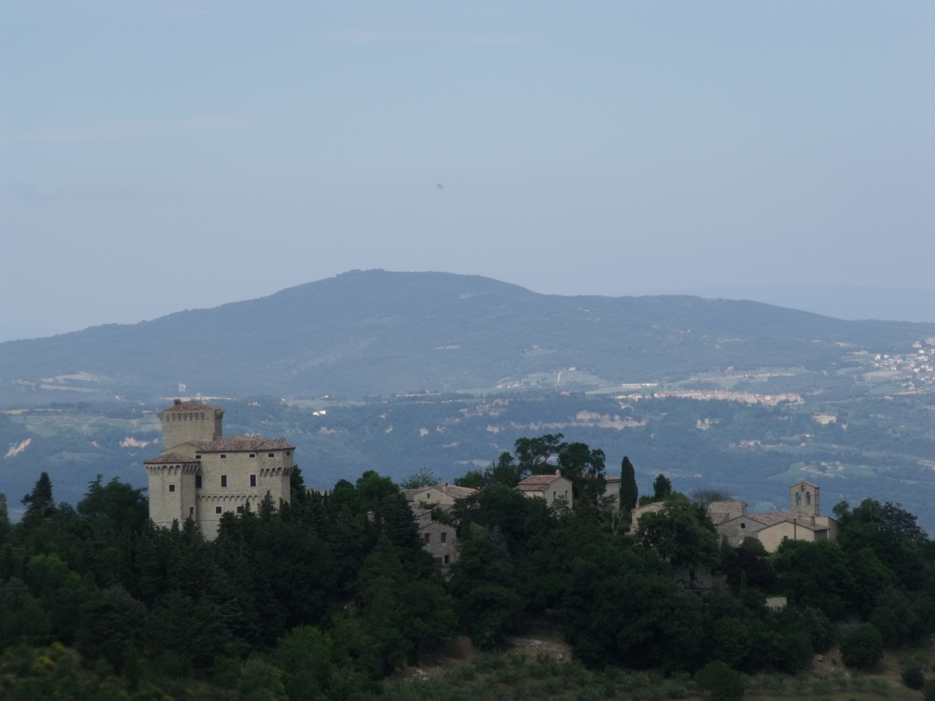 Panorama of Fighine, San Casciano dei Bagni, Province of Siena, Tuscany, Italy